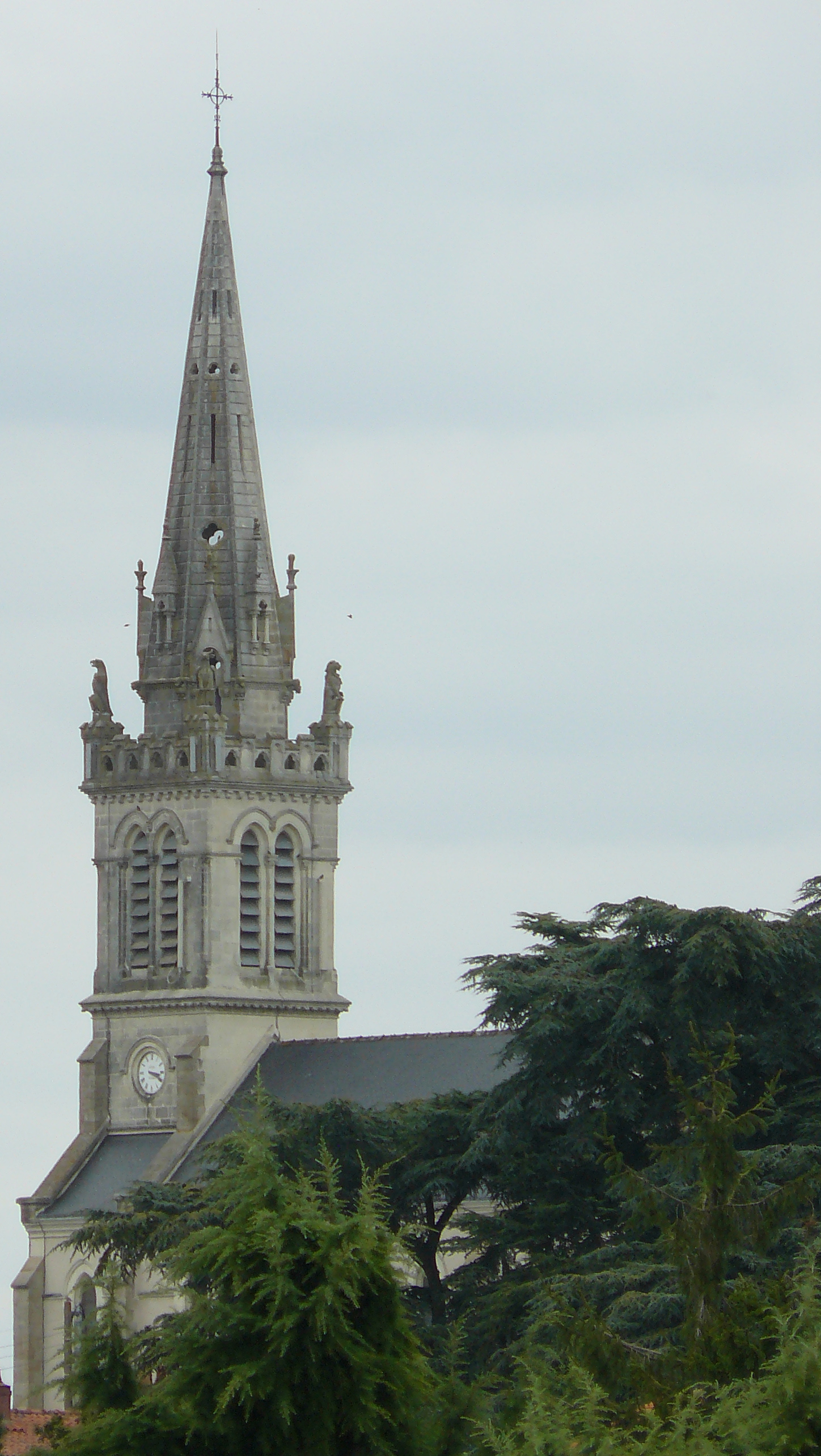 Bell tower of the church of Gorges